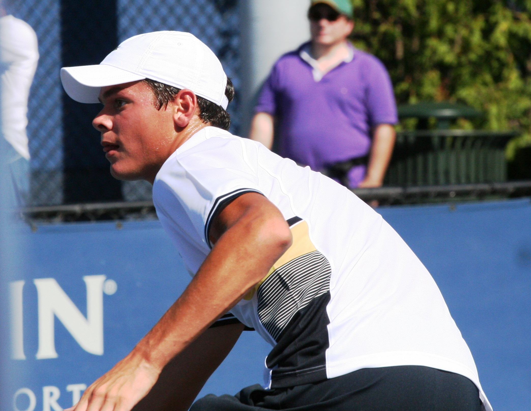 U.S. Open Monday, Aug. 30, 2010